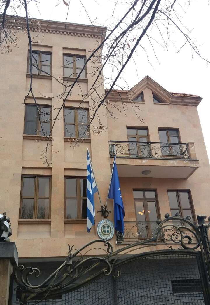 Greek embassy, Yerevan